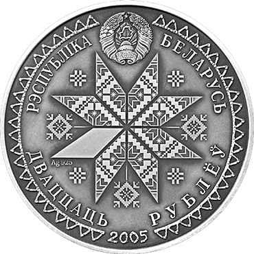 "Bahach", Silver commemorative coins, denomination: 20 rubles